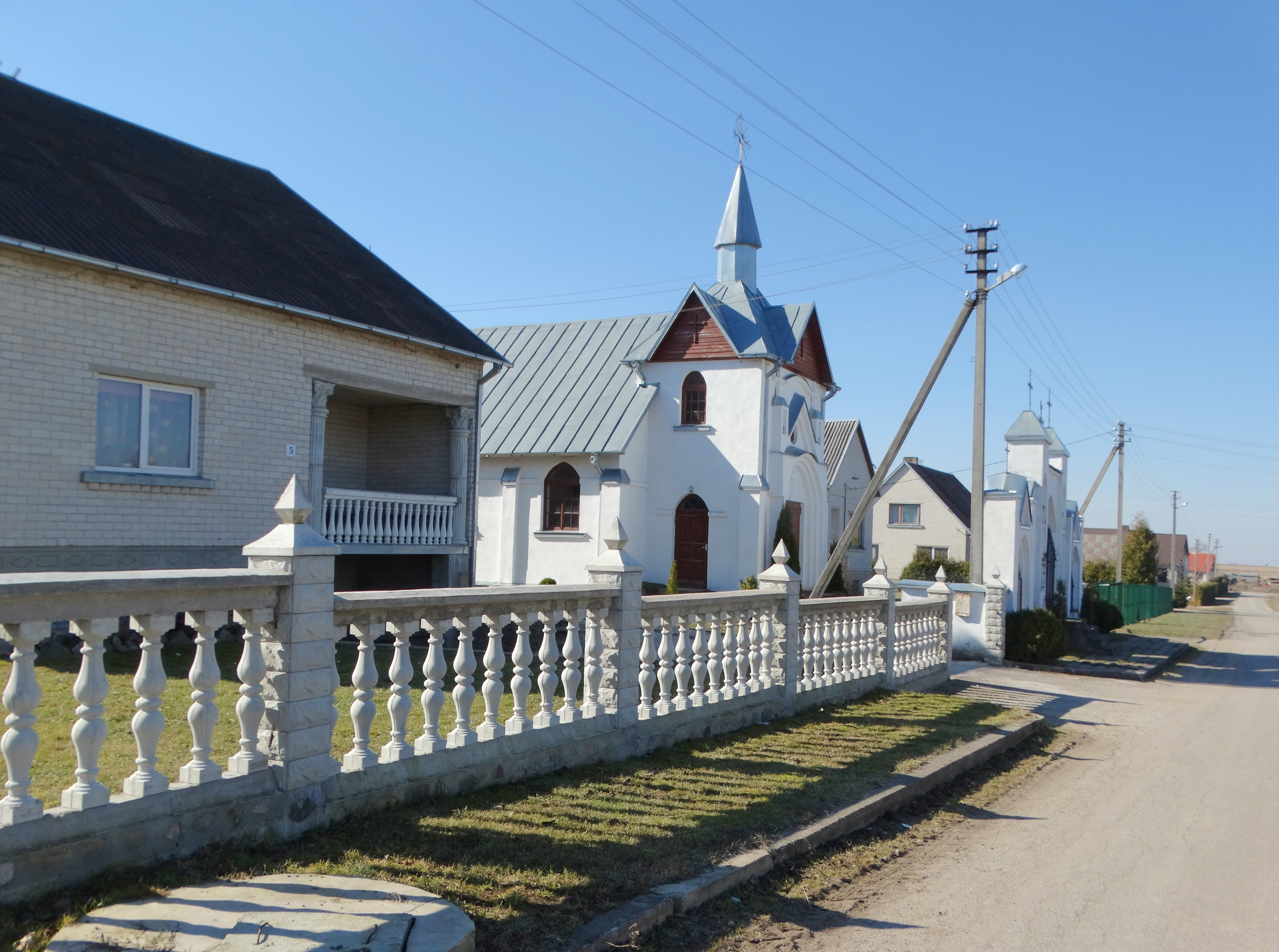 Pijus Stulginskis chapel, Vaiguva, Kelmė district, Lithuania